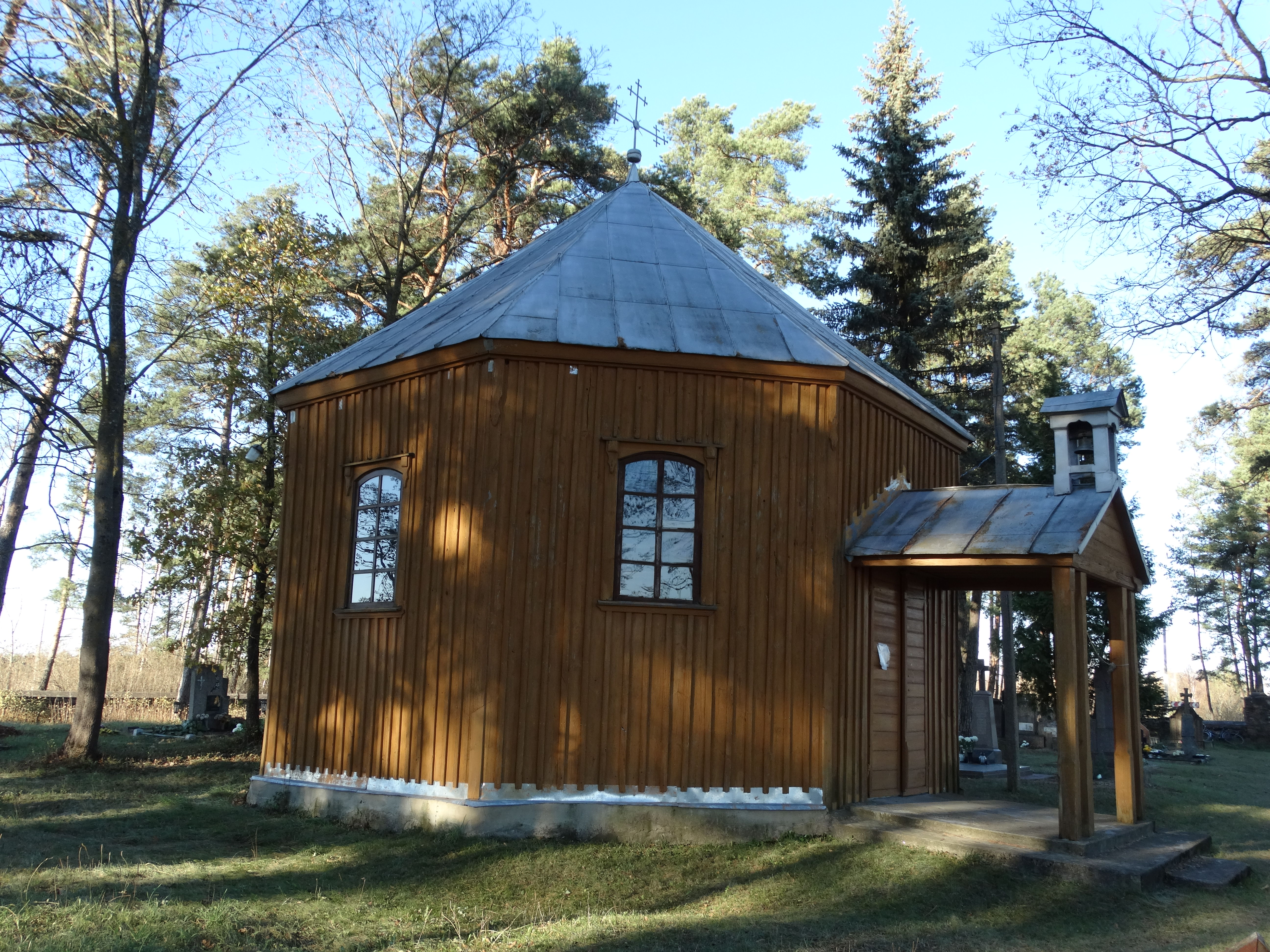 Chapel, Uoginiai, Kupiškis district, Lithuania